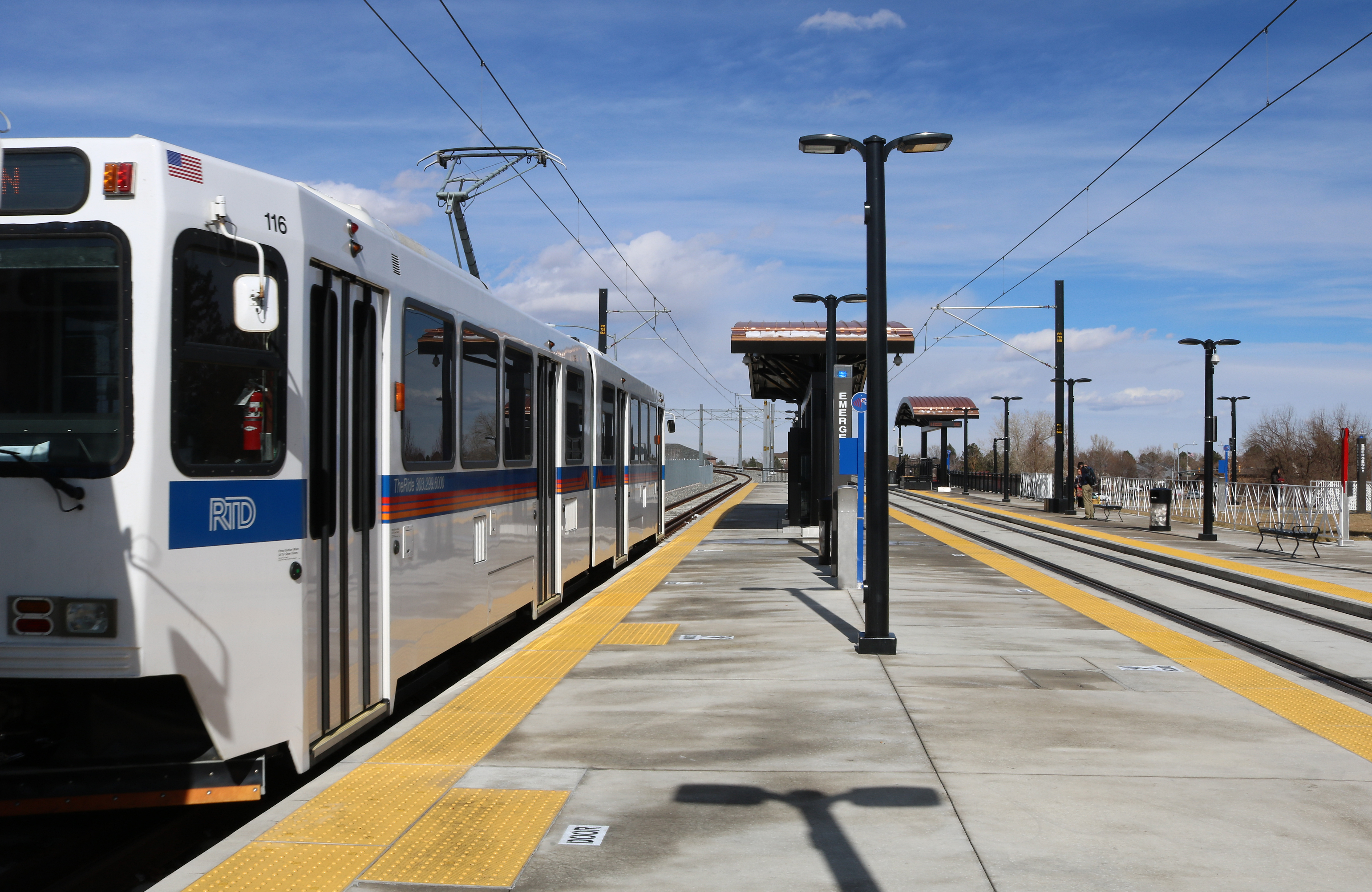 RTD's Iliff Station, located near the intersection of East Iliff Avenue and South Blackhawk Street in Aurora, Colorado. The station is on RTD's R-Line and H-Line.